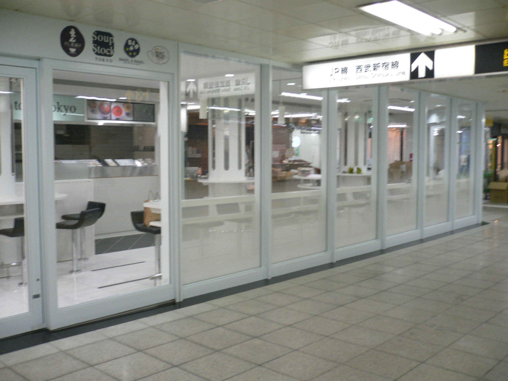 Takadanobaba Station (Takadanobaba Station), Shinjuku W, Tokyō M.